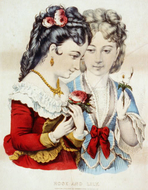 A Cover to the Song "Ah! May The Red Rose Live Alway" by Stephen Foster